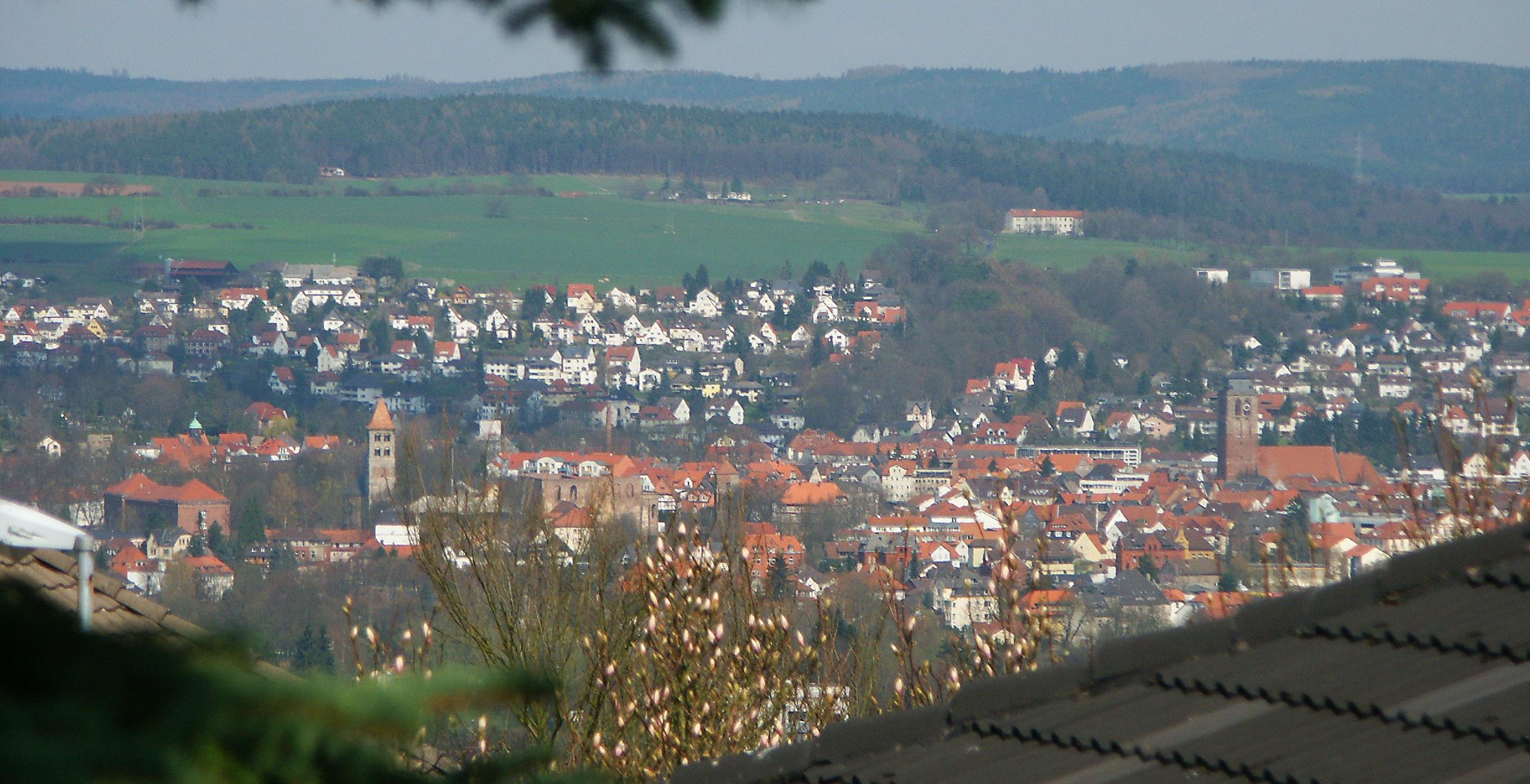 Panoramic view of Old Town Bad Hersfeld. Taken from Johannesberg